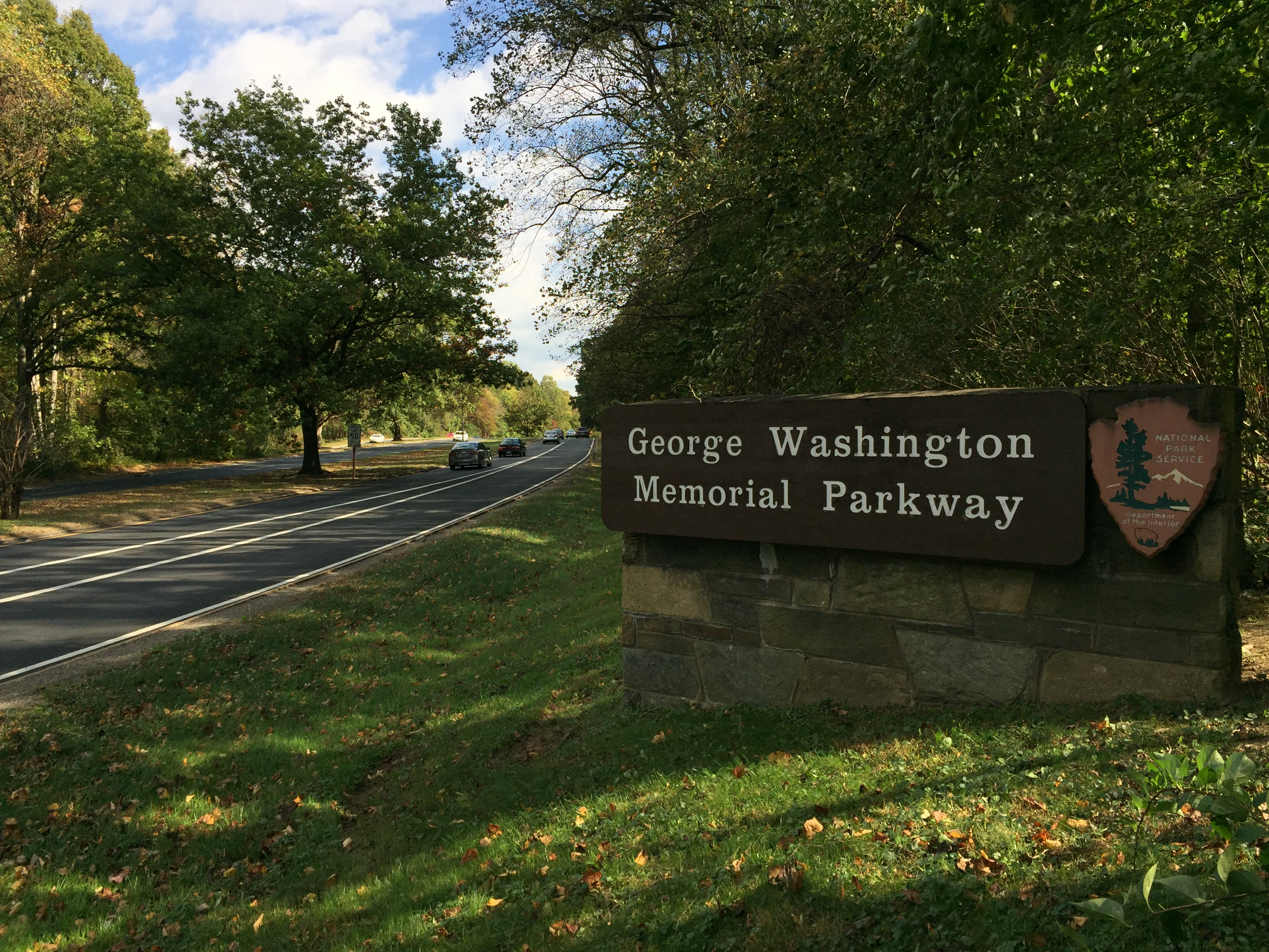 View south along the George Washington Memorial Parkway at Interstate 495 (Capital Beltway) in McLean, Fairfax County, Virginia